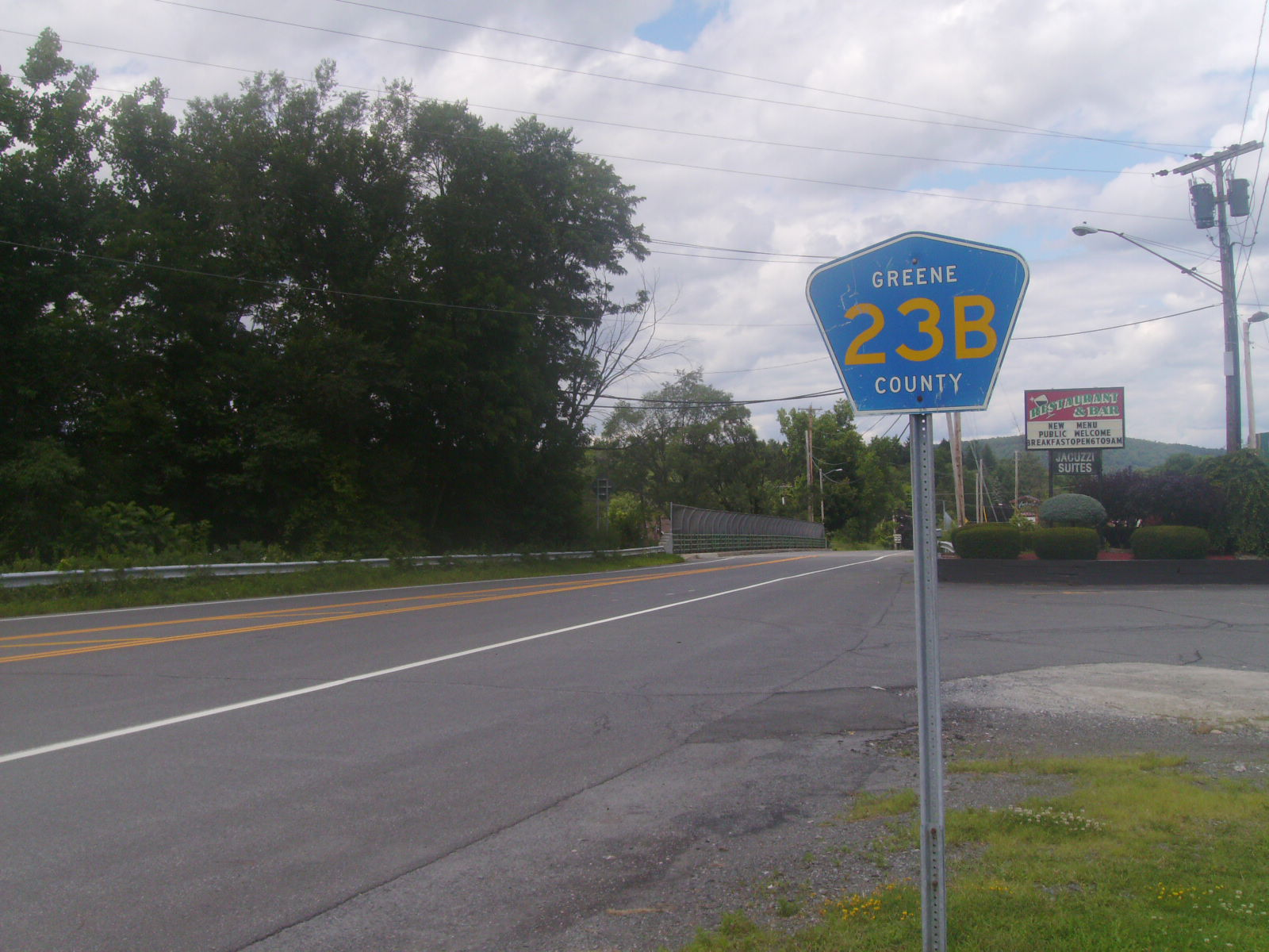 A view to the west of Greene County Route 23B (also co-designated New York State Route 911V) in Catskill, New York. This is one of the few dually designated state-maintained county routes in the state of New York.